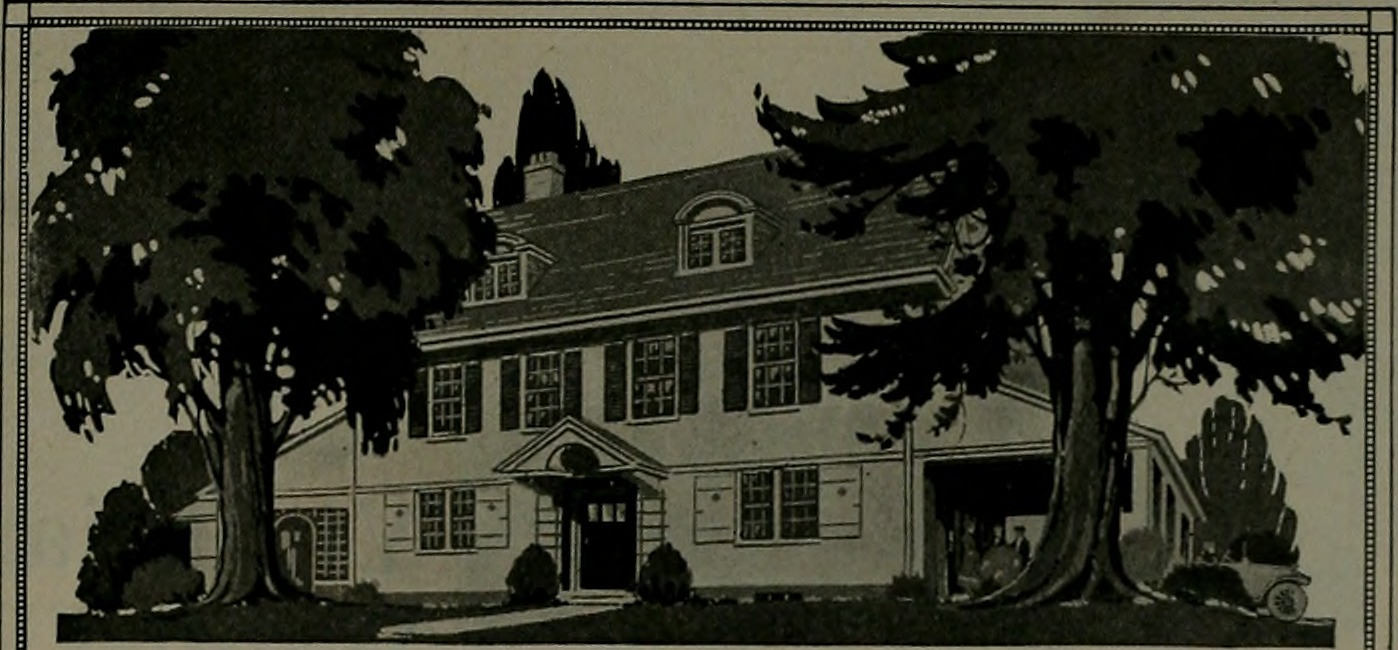 Title: The Architect & engineer of California and the Pacific Coast Year: 1905 (1900s) Authors: Subjects: Architecture Architecture Architecture Building Publisher: San Francisco, Calif. : Architect and Engineer Co Text Appearing Before Image: FOXCROFT BUILDING, 68 Post Street, San Francisco. Offices Single and in Suite. When wHlinfT to Advertisers please mention thi! THE ARCHITECT AND ENGINEER Text Appearing After Image: Why You Should SpecifyKOHLER Sinks KOHLER Sinks have same quality distinctionstKat make KOHLER Bath Tubs and Lavatoriesfirst choice for the •well-planned home. The designs have the hygienic features that arecharacteristic of all Its in theKohlerEnamel WARE always of one quality—the highest KOHLER Sinks are madefor right and left-hand cor-ners and for open wallspaces. They have right, leftand double sloping drain-boards, and are made withand without aprons. KOHLER CO., F. Philadc-lph The whiteness of the enamelis notable in all KOHLER prod-ucts, each of which has ourpermanent trade-mark—a guar-antee of its high quality. Archilects who specify KOHLERWARE get no complaints from theirclients. Kohler, Wis. Pillabumh Dttivit ChicnKo Indiiinapoli:San Fnincisoo Los AnKcU-s Svtittlo London